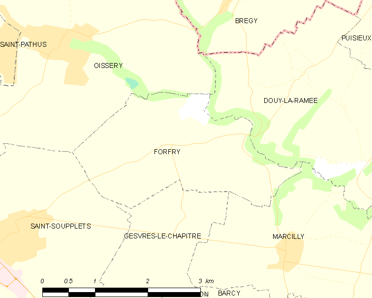 Map of French municipality Forfry